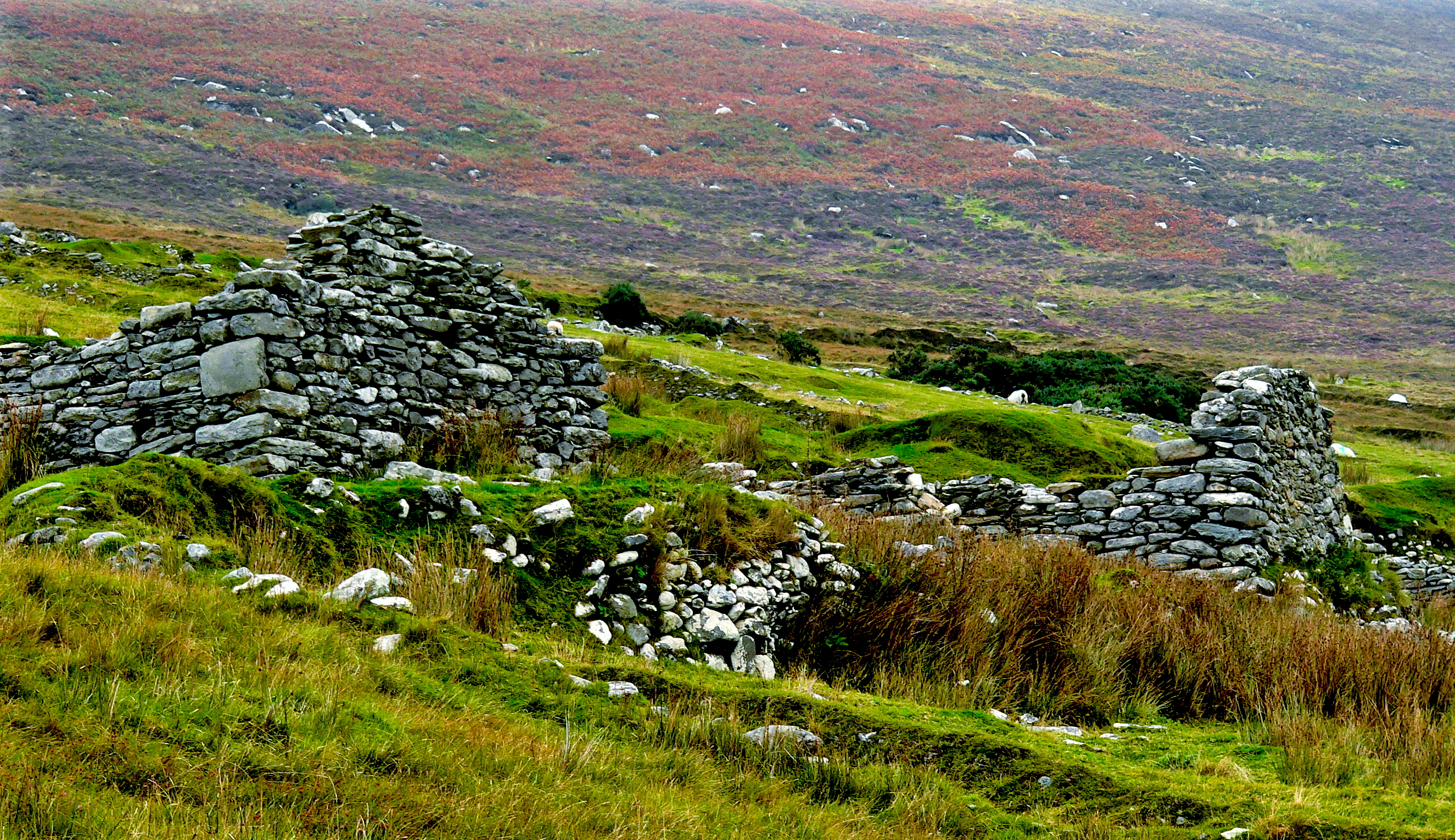 Achill Island - Deserted Village - Cottage Ruins and Mountainside Heather & Scrub